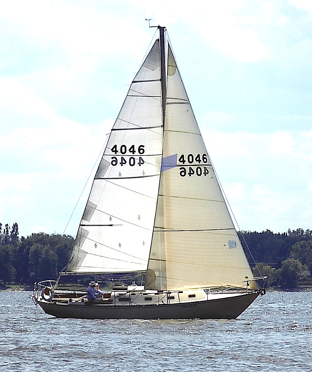 A C&C Corvette 31 sailboat named Veleda III.